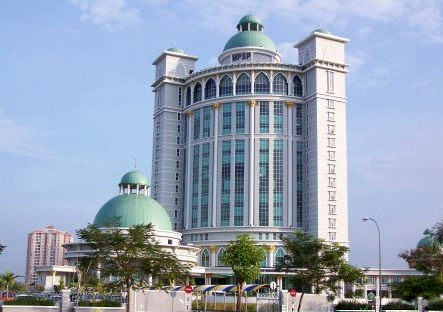 Description: MPSP Office, Bukit Mertajam